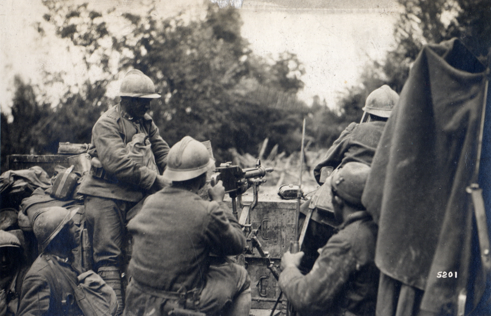 World War 1 - Italian Army: Battle of Vittorio Veneto - Italian forward position near Fossalta